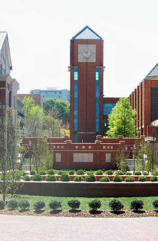 This quad-style area was completed in 2007 with the completion of the College of Health and Human Services (left) and the College of Education (right) at the University of North Carolina, Charlotte. The clock tower of the Barnhardt Student Activity Center is in the background. Upon completion of the Student Union in 2009, this became one of the busiest areas on the entire campus.